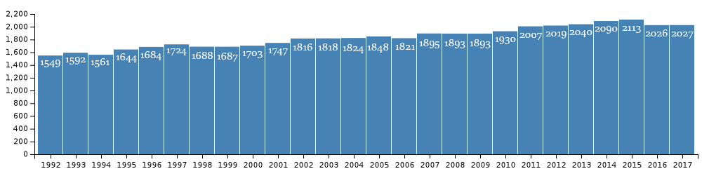 Population of Greenlandic town Tasiilaq in 1992-2017